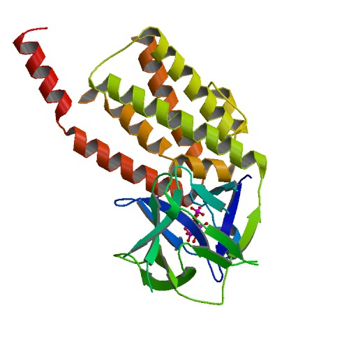 PBB Protein ITPR